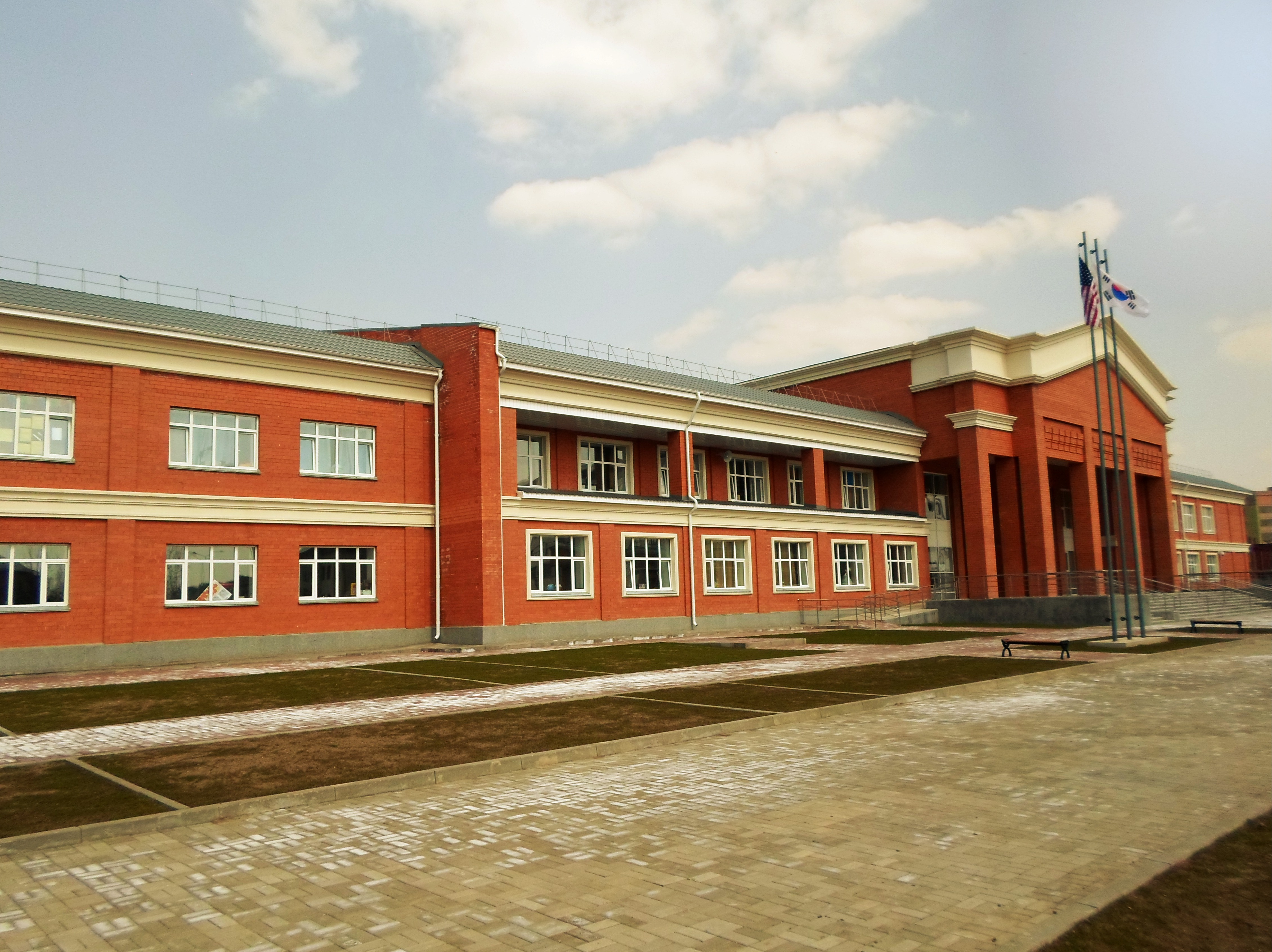 A picture of QSI Astana from the front entrance in September 2013.